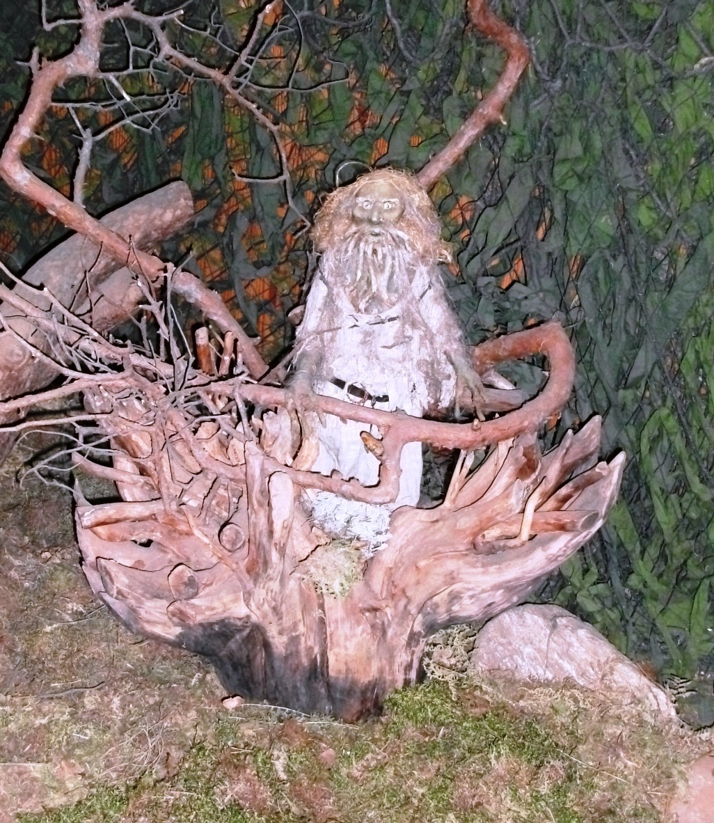 Lyasun, Slavic legendary creature. Children's Museum of Mythology and Wood in Zaslawye, Belarus.